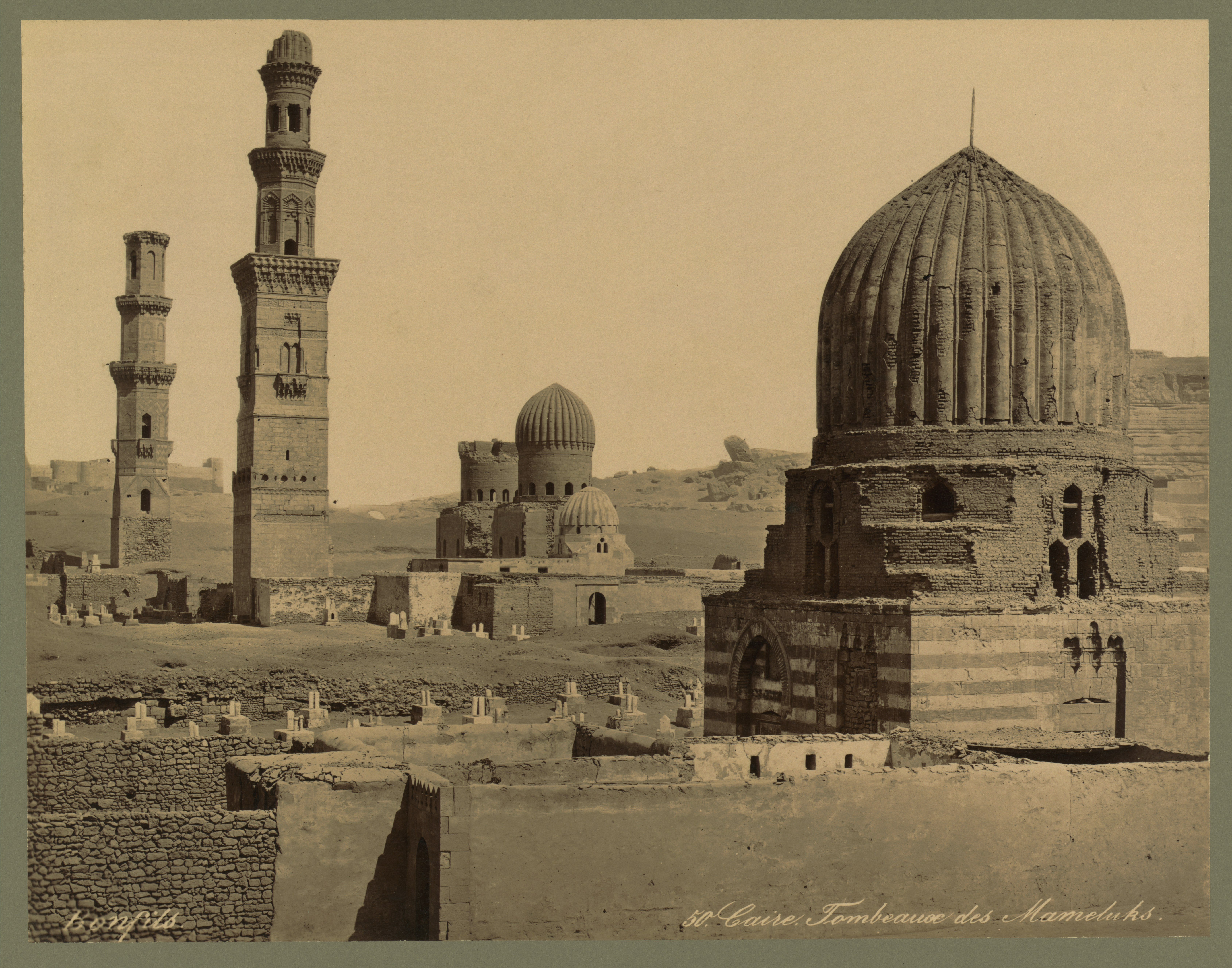 Title: Caire. Tombeaux des Mameluks / Bonfils. Abstract/medium: 1 photographic print : albumen.